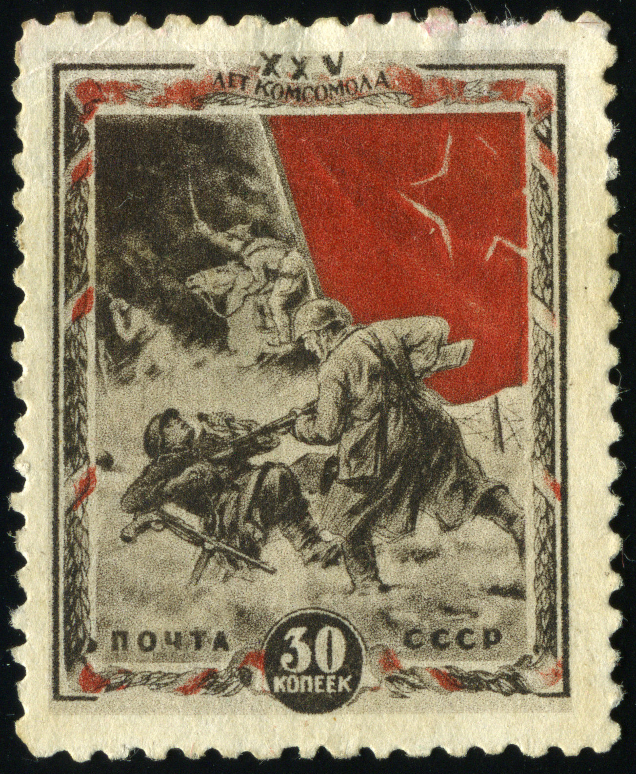 Soviet stamp of 30 kopecks. Work of N. Zhukov. Belongs to serial "XXV Komsolol's anniversary". CPA #875